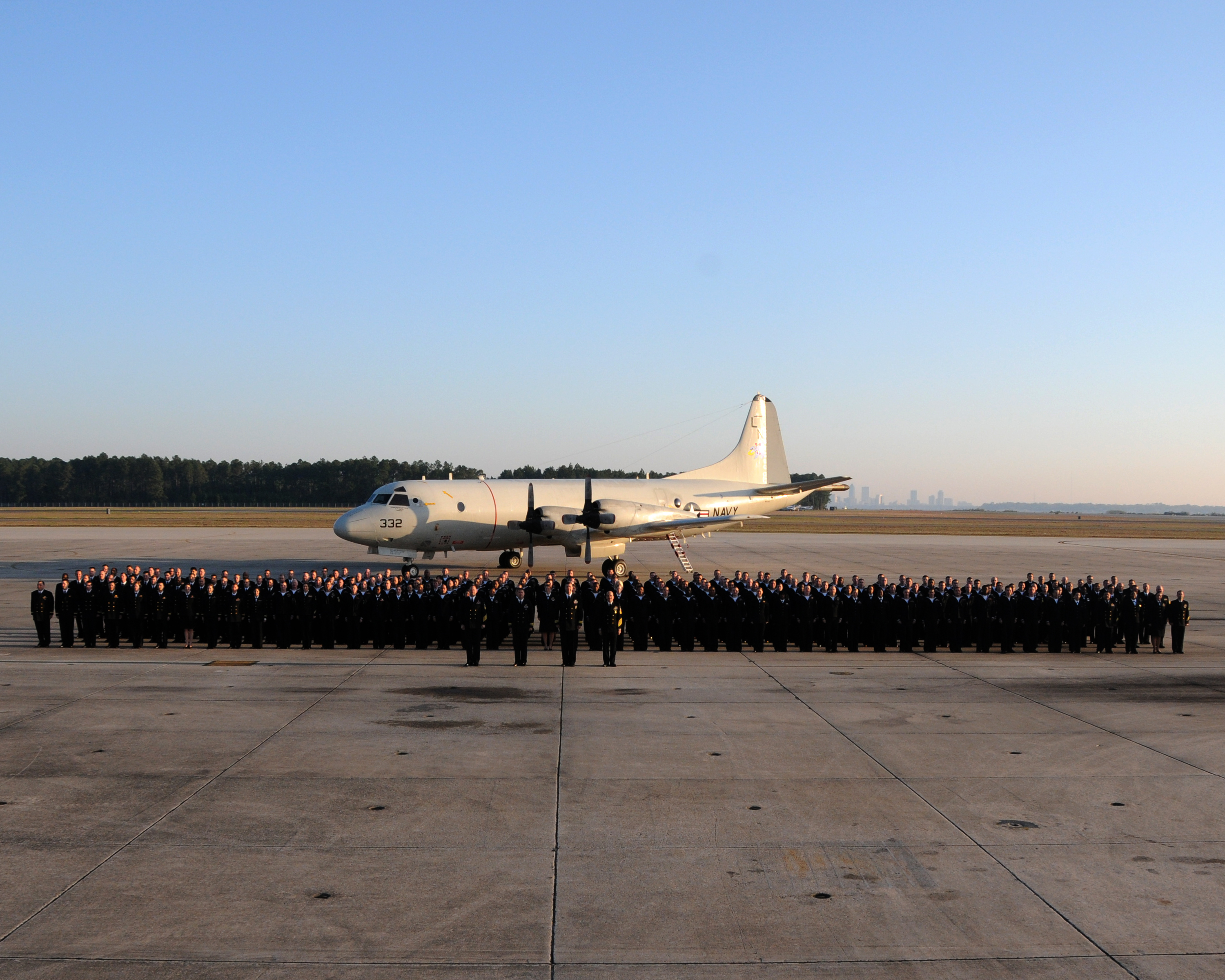 Personnel of the U.S. Navy Patrol Squadron VP-45 with one of their Lockheed P-3C Orion aircraft in 2010.